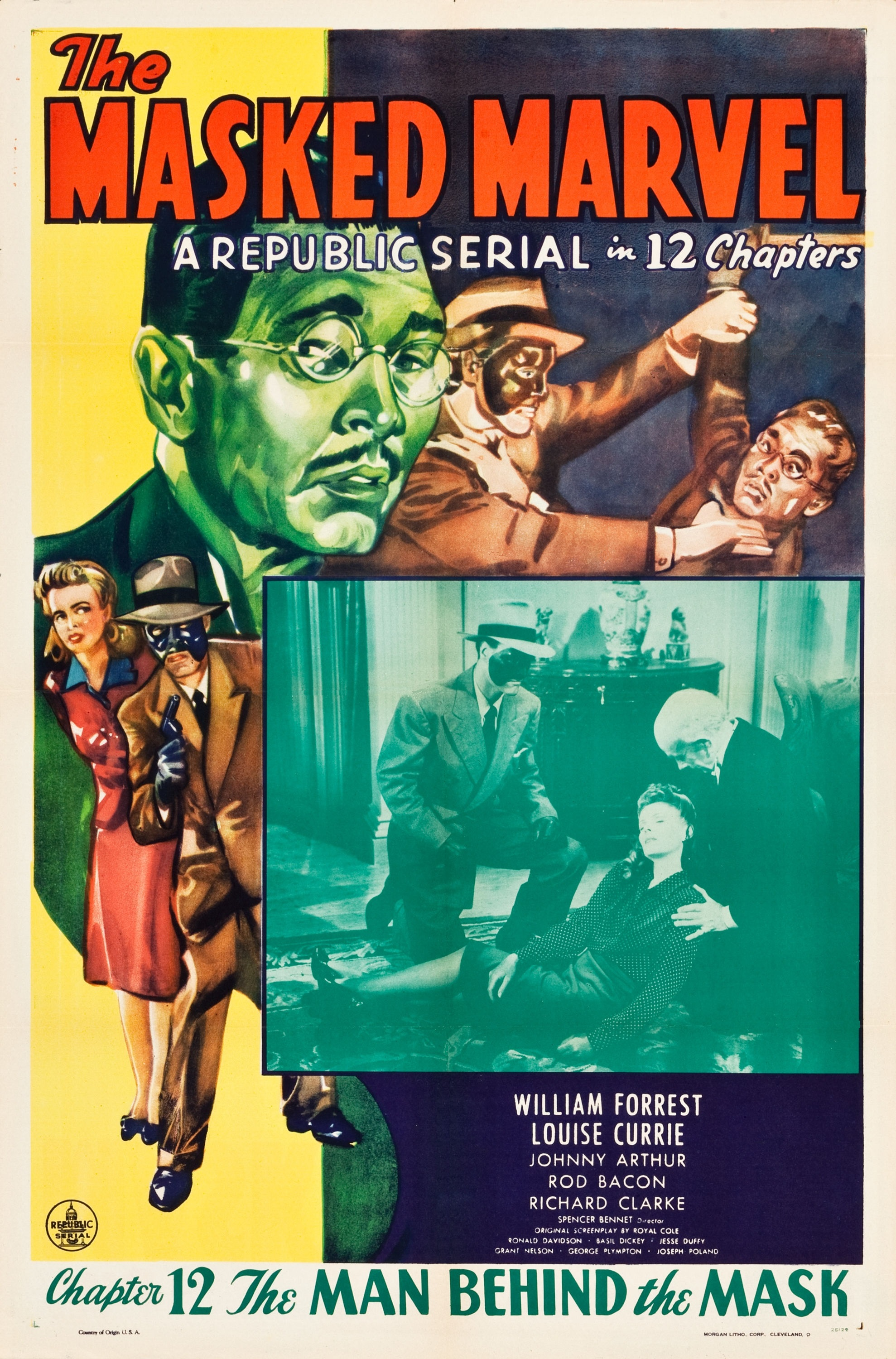 Lobby card for the 1943 film The Masked Marvel. The item has no copyright markings on it as can be seen in the links above. At bottom left is Country of origin USA. At bottom right is Morgan Litho Corp., Cleveland, O-they printed the poster-and 25/24.